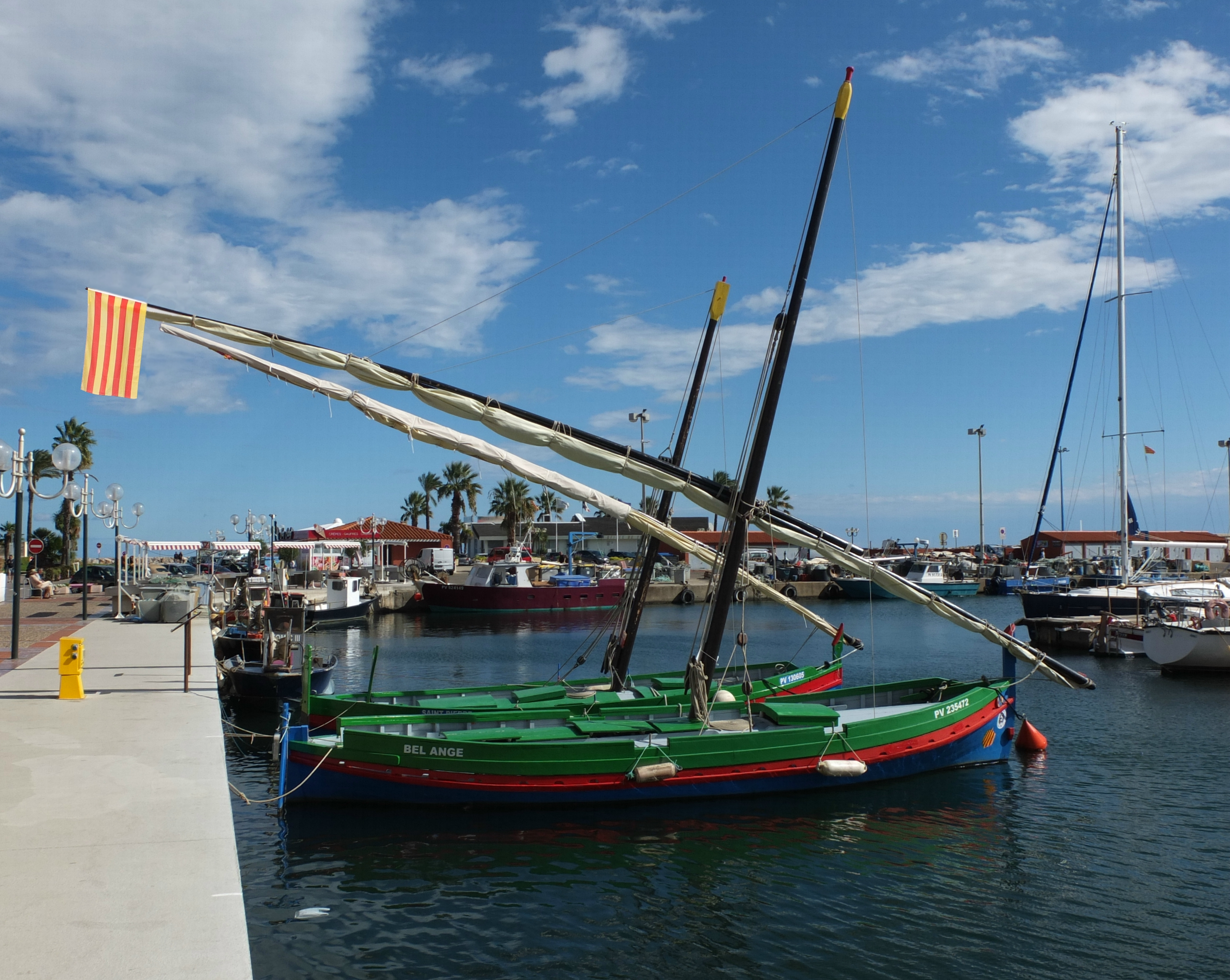 Historical barque "Le Bel Ange" (1898) in the port of Saint-Cyprien Plage, France.